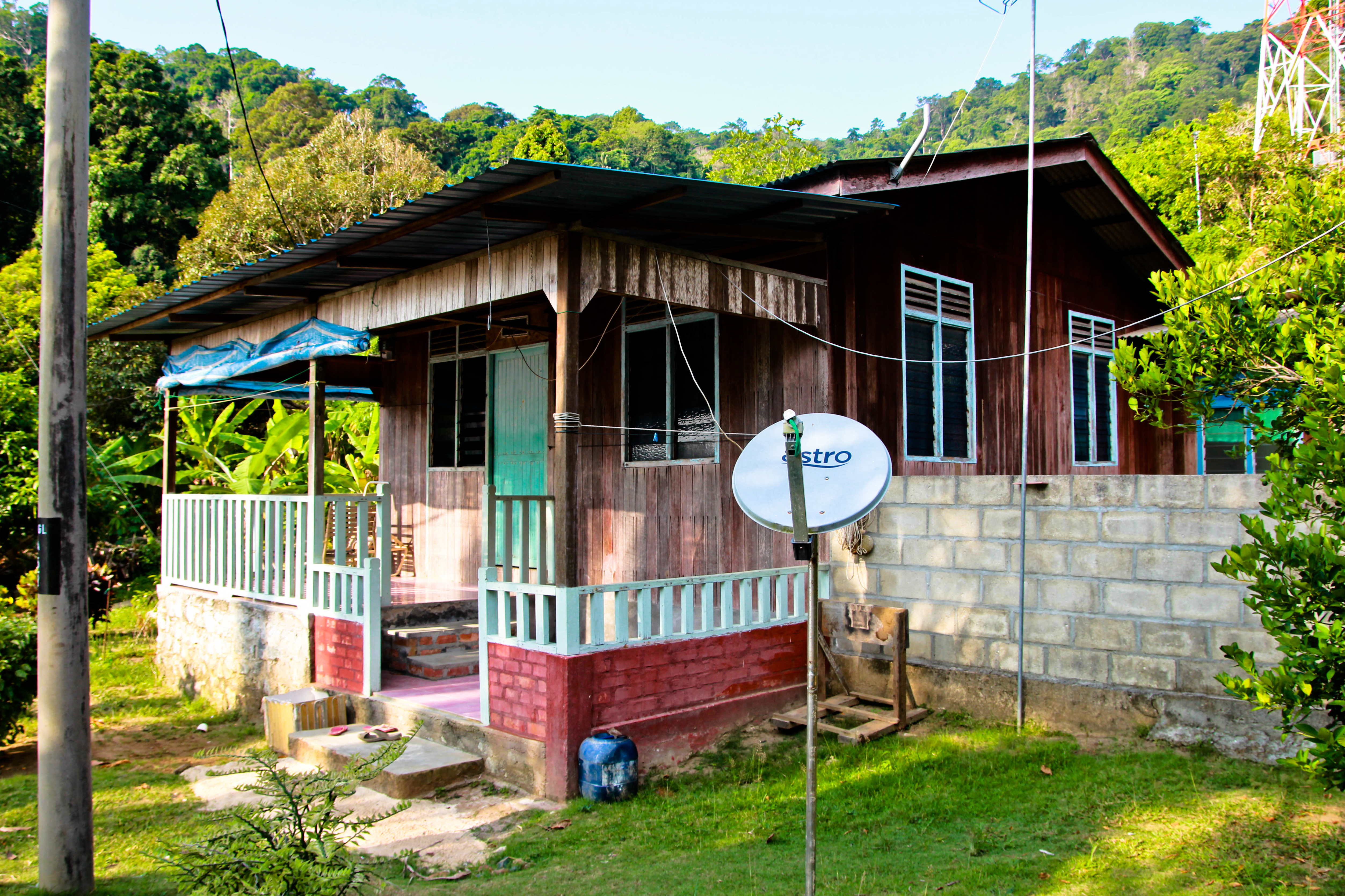 Pulau Tioman